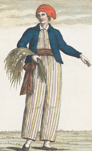 Jeanne Barre